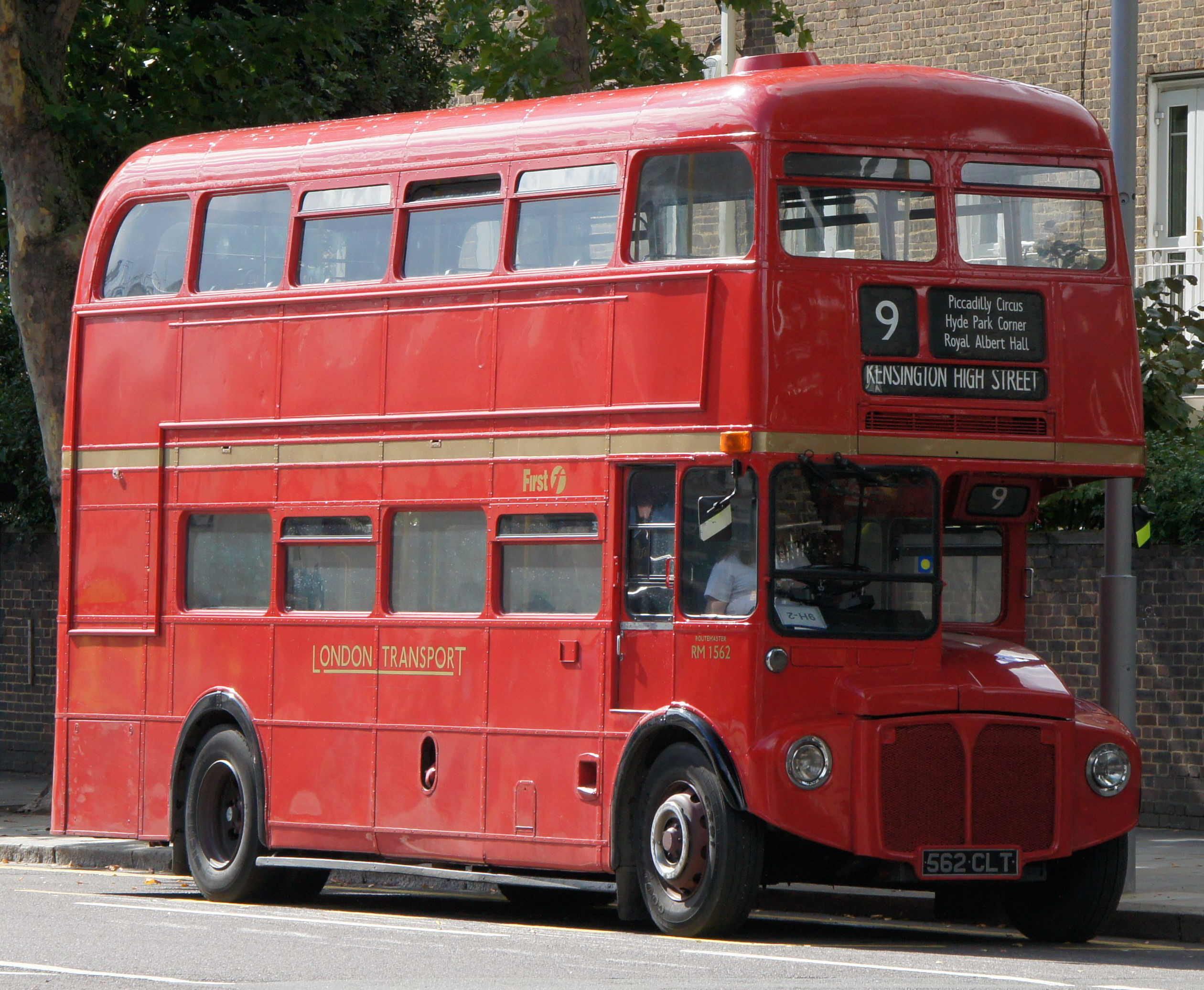 The western terminus of London Buses heritage route 9 in Kensington High Street, west London. The bus stand is located just infront of Stop W (Warwick Gardens), in the eastbound direction. First London Routemaster bus RM1562 (reg. 562 CLT) is pictured here parked up on the stand, having completed a westbound trip and turned around. As seen in this image seconds later it left but without changing its destination display, perhaps indicating a return to the garage, which is near Westbourne Park tube station, rather than a new eastbound trip.